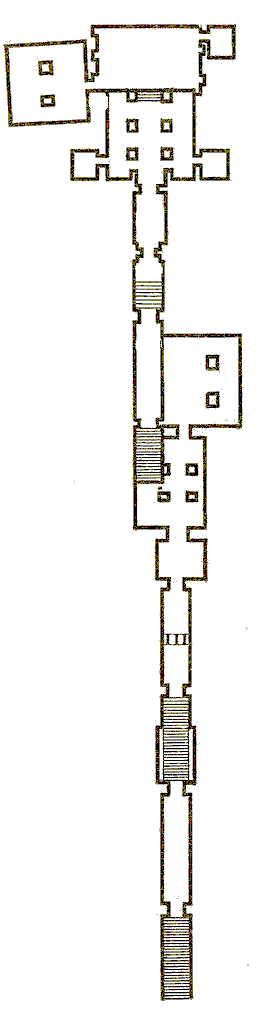 Idealised dog leg royal tomb